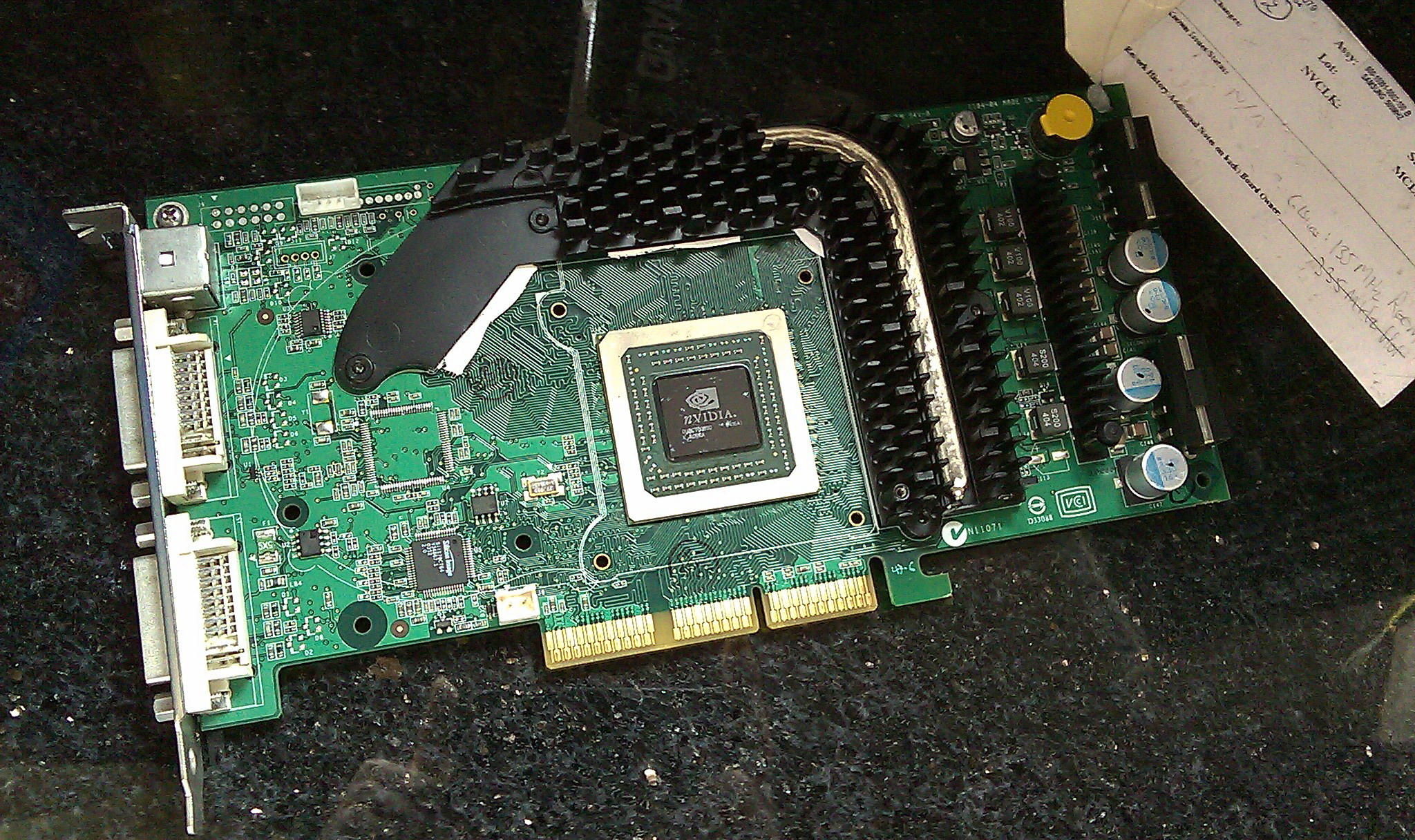 NVIDIA NV40GL: Quadro FX 4000 / GeForce 6800 GT